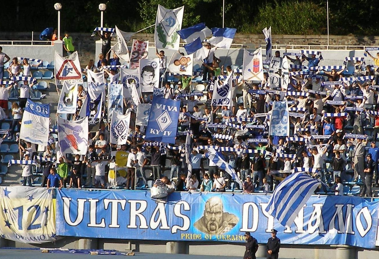 Dynamo Kyiv Ultras